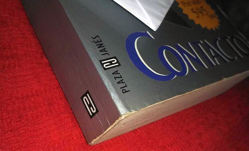 Cantacto (Contact) - 1999 Spanish economic edition of Carl Sagan's novel